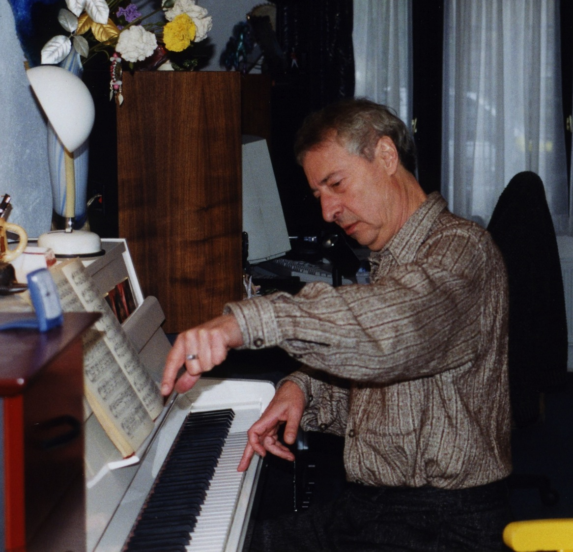 luc ferrari in our house 1990